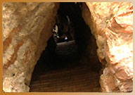 o